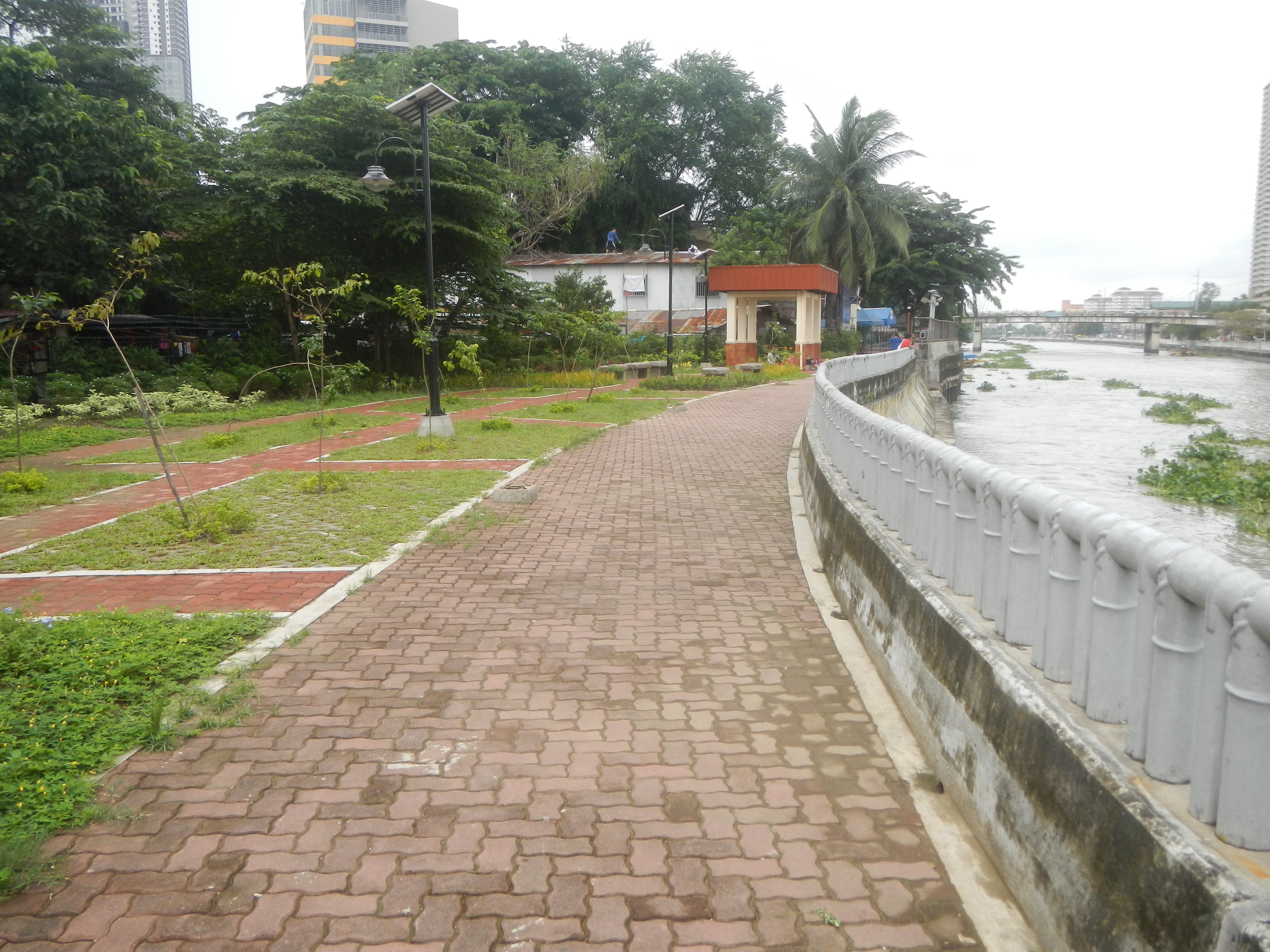 J.P. Rizal Avenue or J. P. Rizal Street 3 - meter existing easement PRRC Linear Park (Poblacion Makati City) Poblacion, Makati City Clock-Bell Tower List of museums in Metro Manila Museo ng Makati Barangay Hall and Buildings of List of barangays of Metro Manila, Legislative districts of Makati, Barangay Poblacion, Makati, Makati City (Note: Judge Florentino Floro, the owner, to repeat, Donor Florentino Floro of all these photos hereby donate gratuitously, freely and unconditionally all these photos to and for Wikimedia Commons, exclusively, for public use of the public domain, and again without any condition whatsoever).